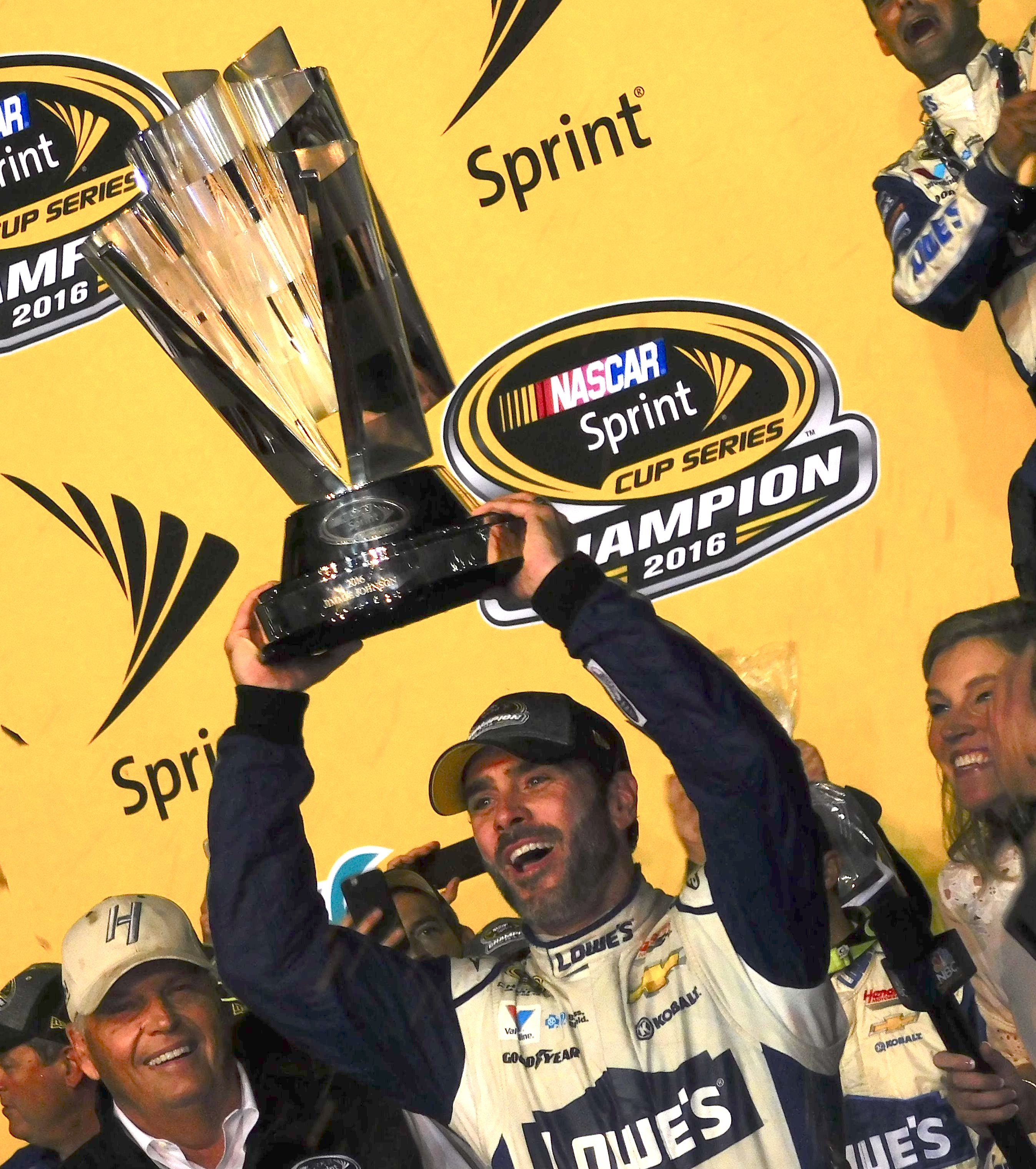 Jimmie Johnson celebrates after winning his record-tying seventh NASCAR Cup Series championship during the Ford EcoBoost 400 at Homestead–Miami Speedway in 2016.